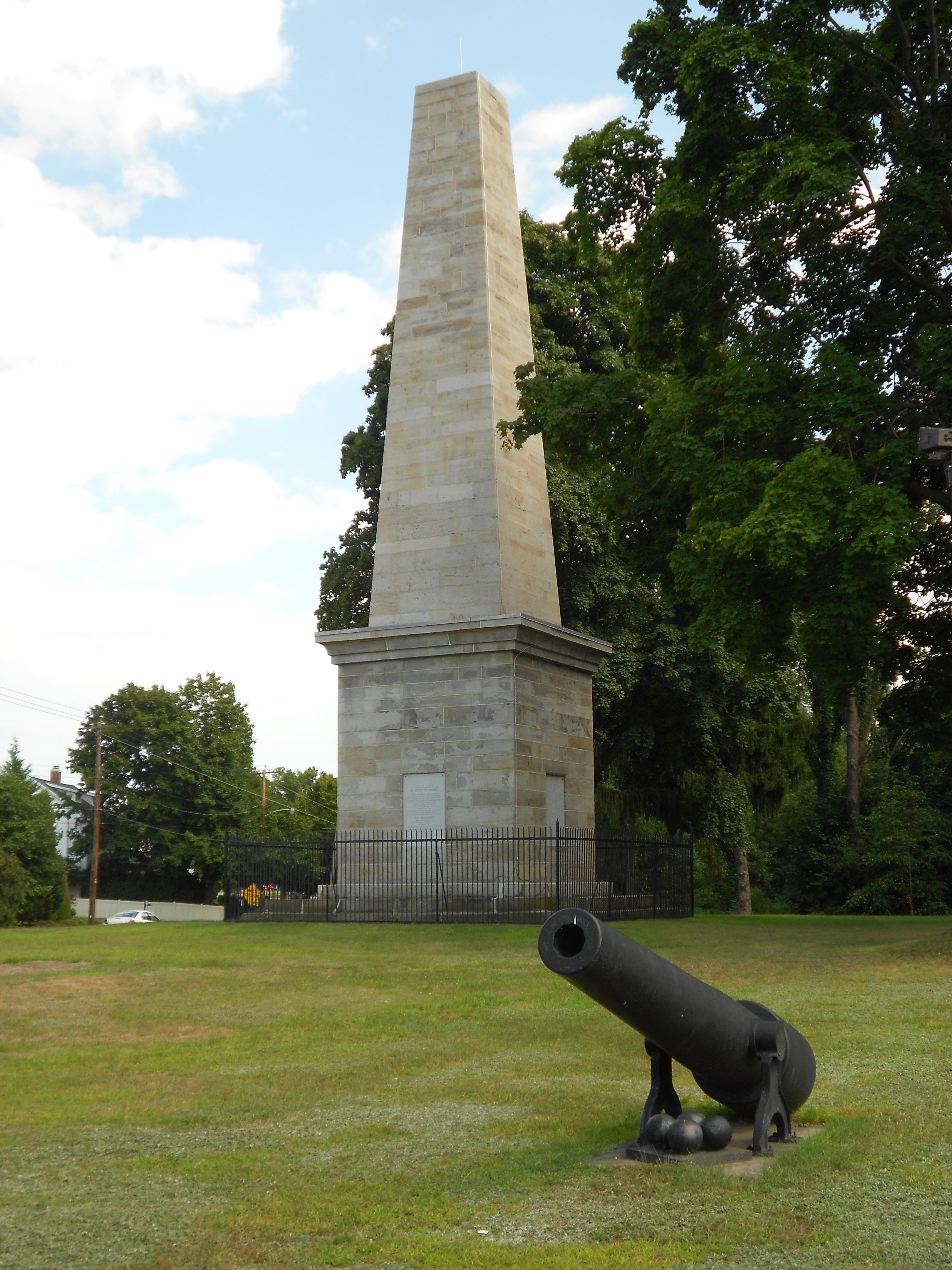 Wyoming Monument, on the NRHP since May 13, 2002. On U.S. Route 11, Wyoming Avenue and Susquehanna Street, Wyoming, Luzerne County, Pennsylvania. Commemorates a Revolutionary War battle where the "Americans" were pretty much wiped out by the British, "Indians" and Tories.